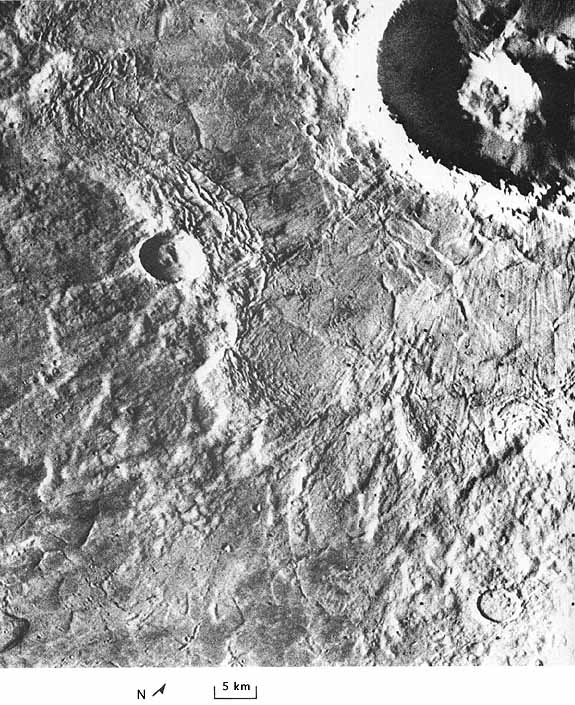 Detail of Arandas, on Mars. This is a figure on p.78 of NASA SP-441: VIKING ORBITER VIEWS OF MARS, which has the following caption: Detail of Arandas Crater Ejecta. The fractures of the underlying plains at Arandas' location are clearly visible through the ejecta, even close to the rim, showing that the ejecta are very thin. On the ejecta surface is a fine radial pattern. 32A28; 43°N, 14°W